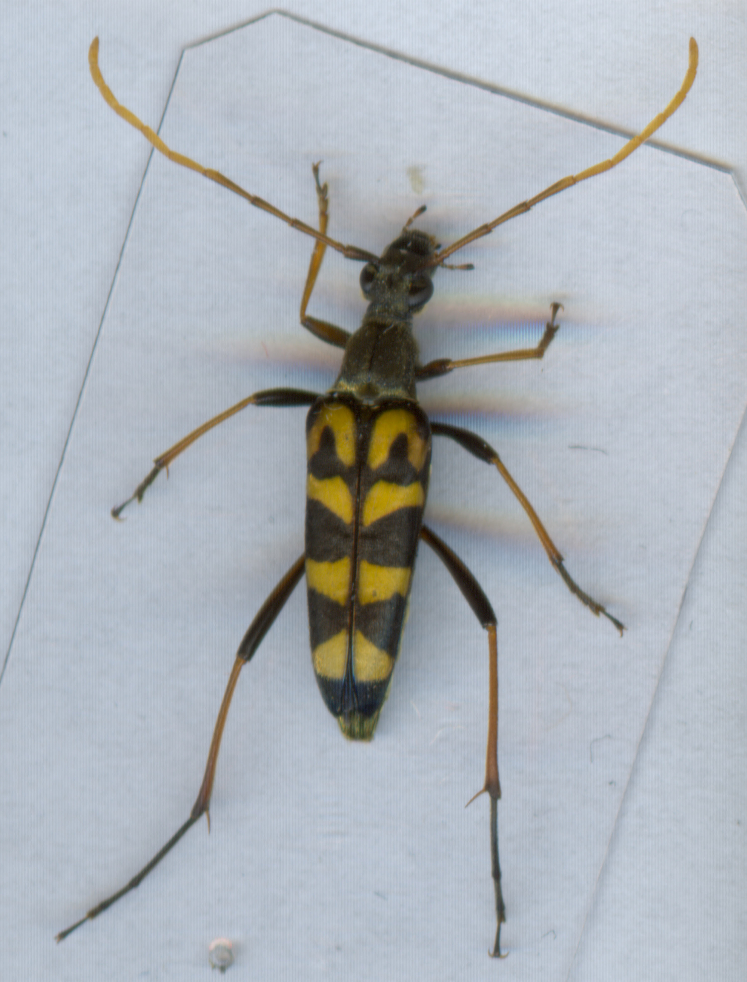 Leptura annularis (Fabricius, 1801) Female